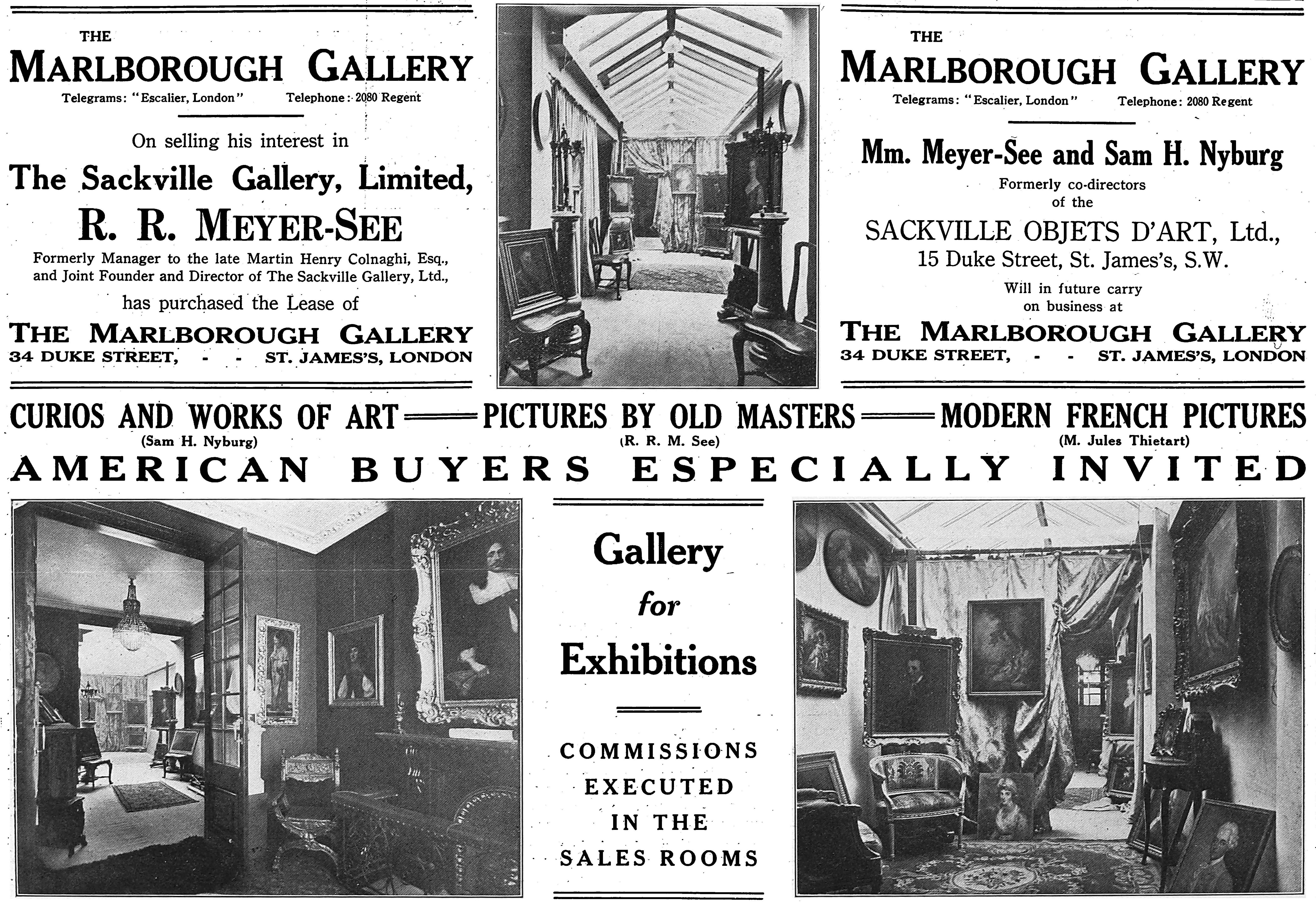 Advertising for the Marlborough Gallery American Art News Vol. 11, No. 30, 10 May 1913, p. 6.